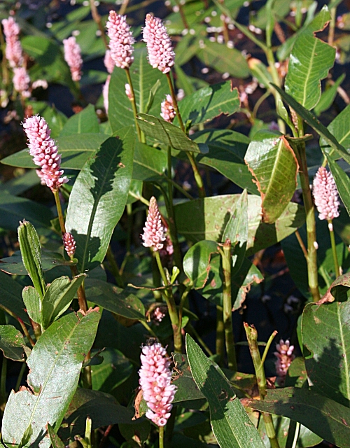 Amphibious Bistort (Persicaria amphibia) Growing in the water at the edge of the Gelly Loch.